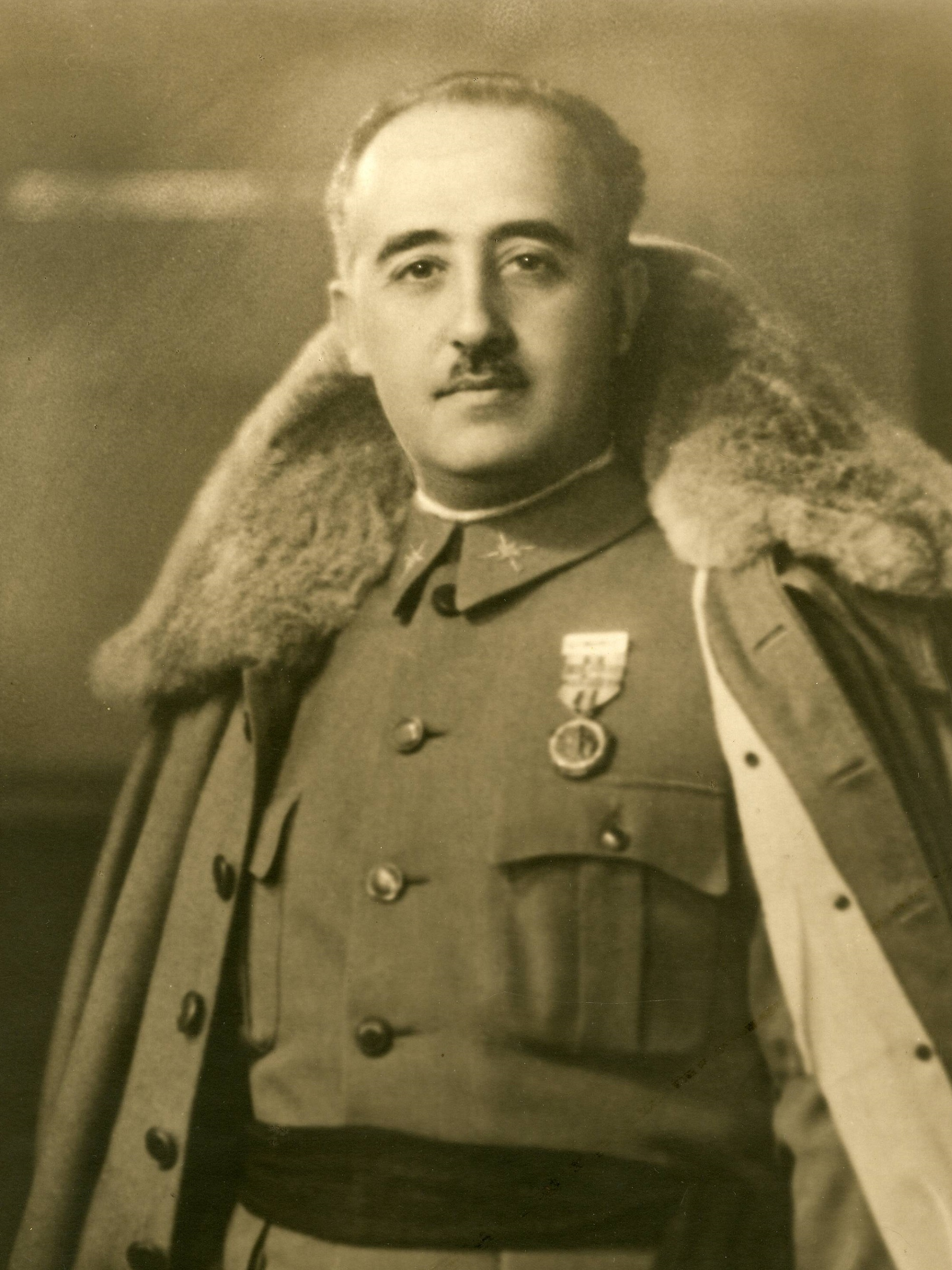 Photograph of General Franco with winter cloak.